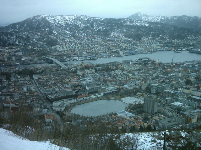 Sight to Bergen from hill Fløyen